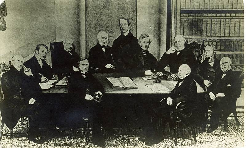 The apostles of the Catholic-Apostolic Church (the Irvingites). Because of the number of apostles it can be concluded that the scene depicted is from 1835-1855, and it should be contemporary. Caption in source (context: Pictured here (from left to right) are: Henry Drummond, John Tudor, Henry King-Church, Henry Dalton, Francis Sitwell, William Dow, Thomas Carlyle, Francis Woodhouse (at rear), John Cardale (in front), Spencer Perceval, and Nicholas Armstrong. Duncan Mackenzie is missing.